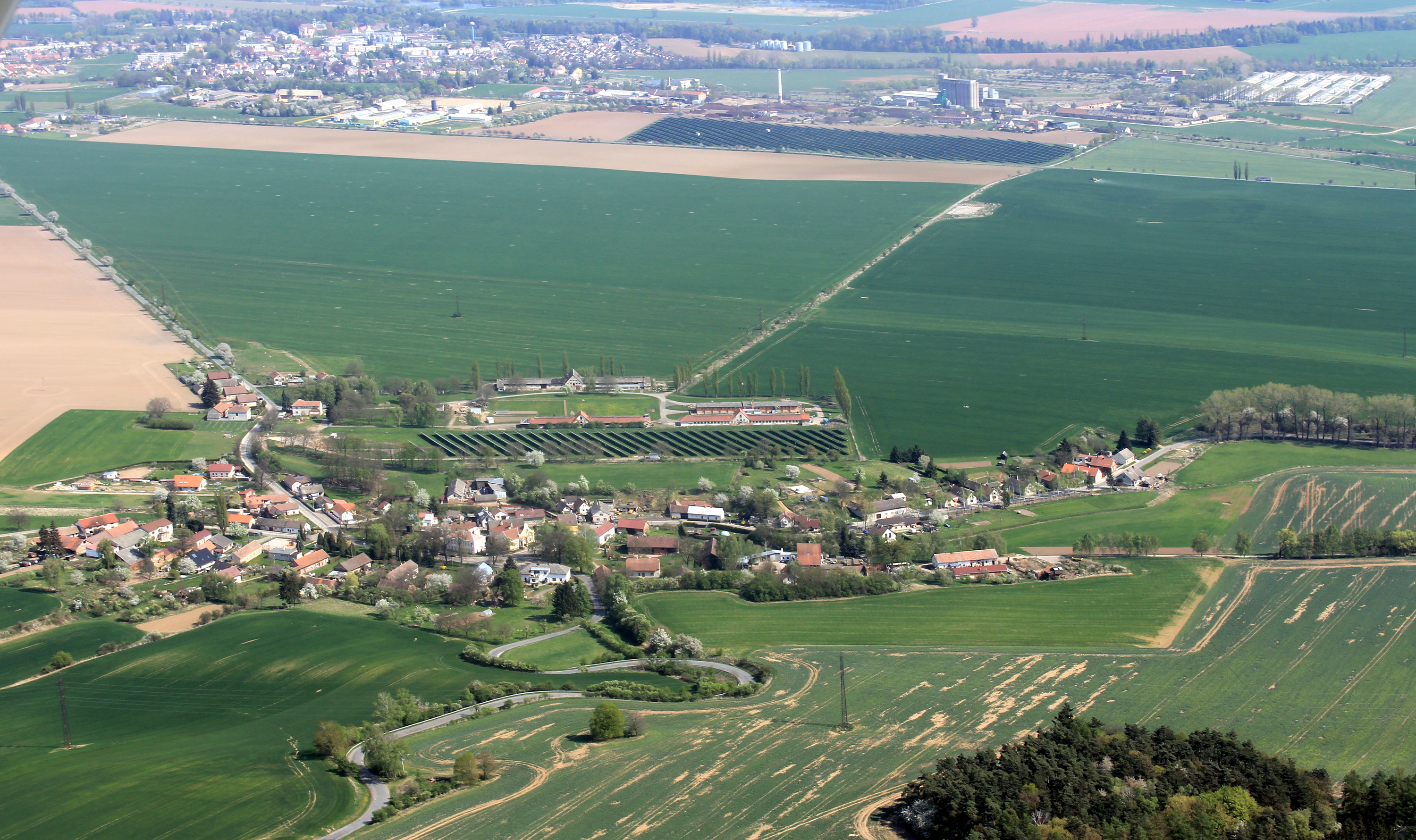 Village Rodov, part of small town Smiřice from air, eastern Bohemia, Czech Republic